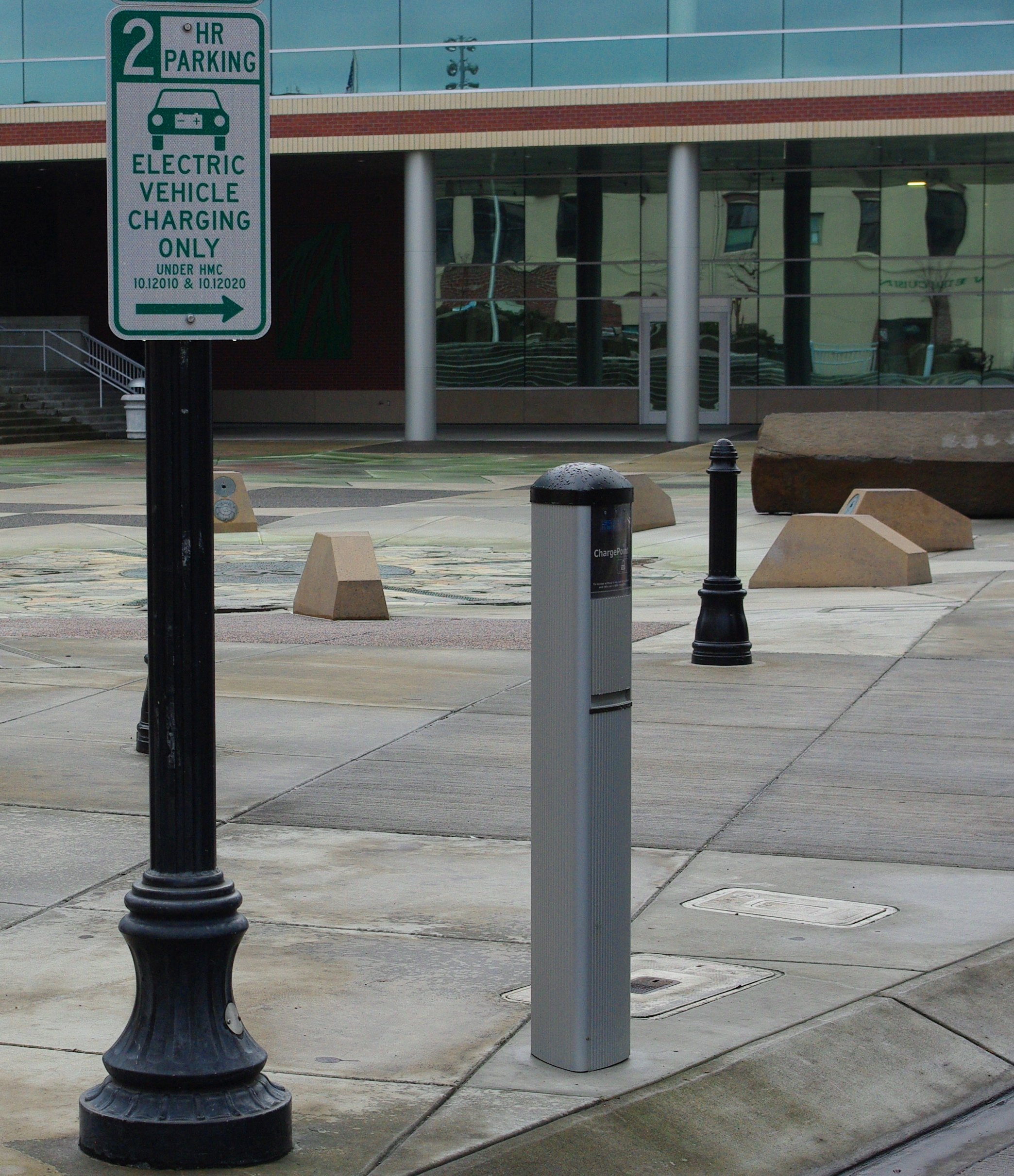 Electric vehicle charging station at the Hillsboro Civic Center in Hillsboro, Oregon.